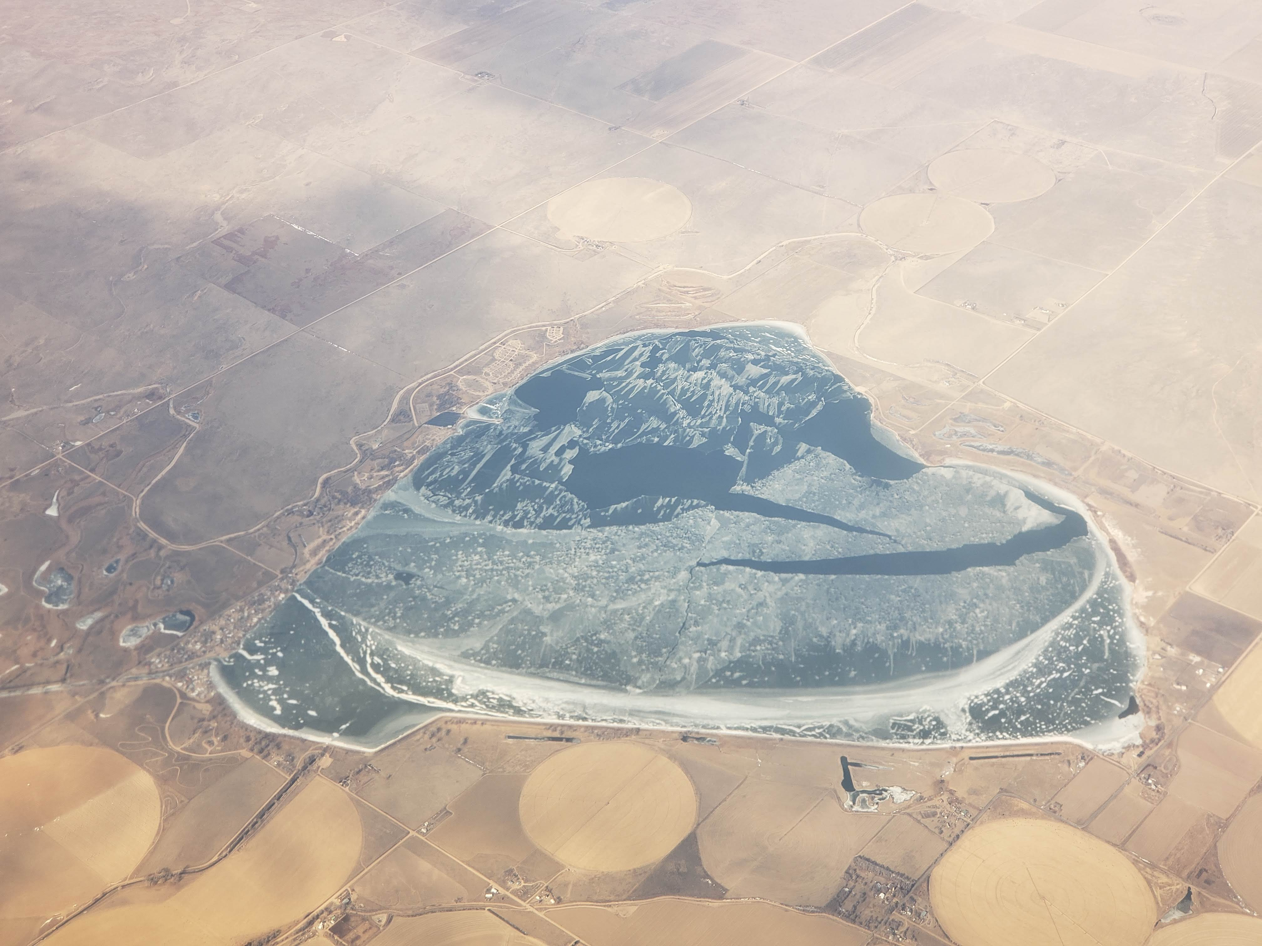 A photograph of Jackson Reservoir, near Orchard, Colorado, partially covered in ice. North is towards the top-right of the photo, which was taken from a commercial airliner.